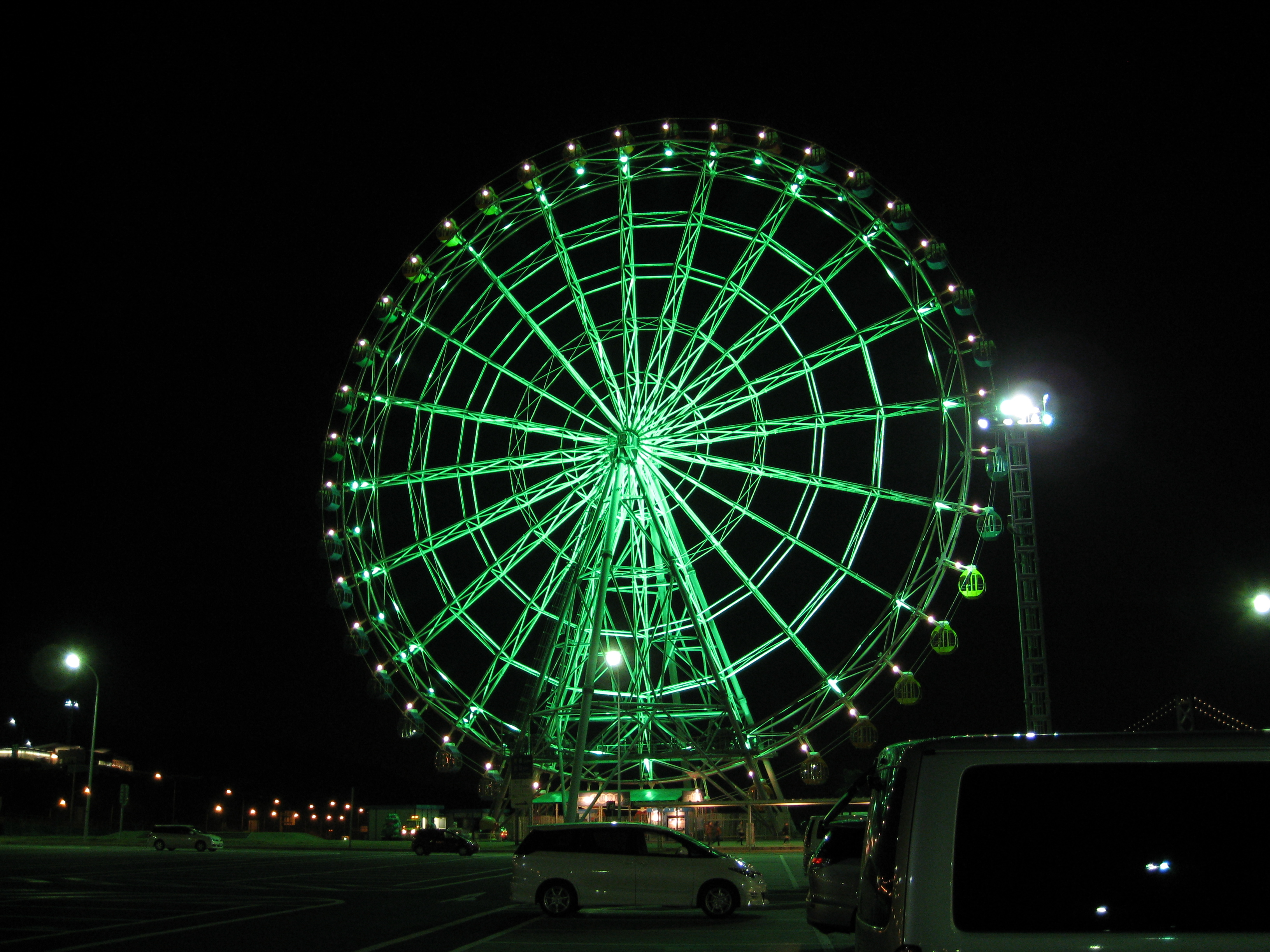 Ferris wheel in Awaji Service Area (Kudari) in Awaji, Hyogo, Japan. It is on the Kobe-Awaji-Naruto Expressway.